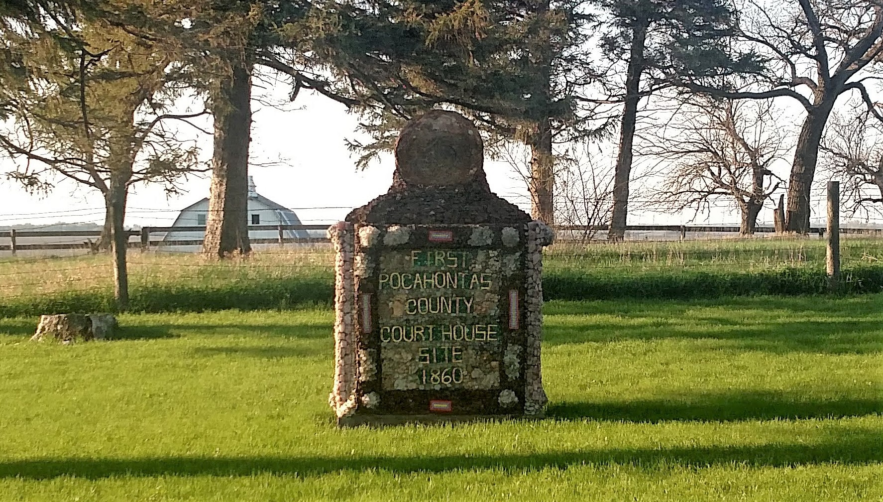 Historic marker near Old Rolfe, Iowa marking the first Pocahontas County Courthouse